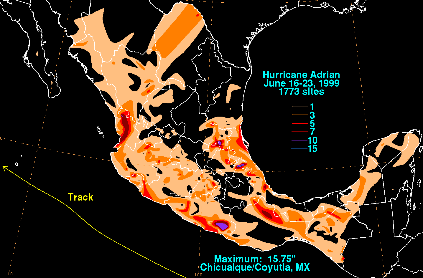 Storm total rainfall map of Hurricane Adrian during June 1999.